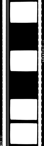 A scan of several frames from Arnulf Rainer by Peter Kubelka